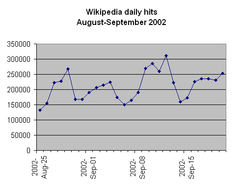 GFDL-en 01:01, 13 November 2007 (UTC) wikipedia daily traffic graph sep 2002